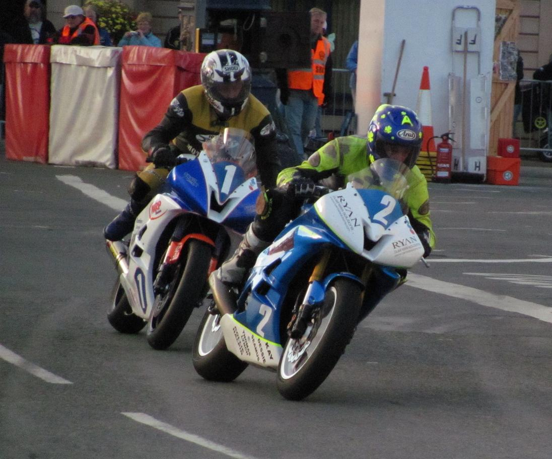 Manx Grand Prix 2010